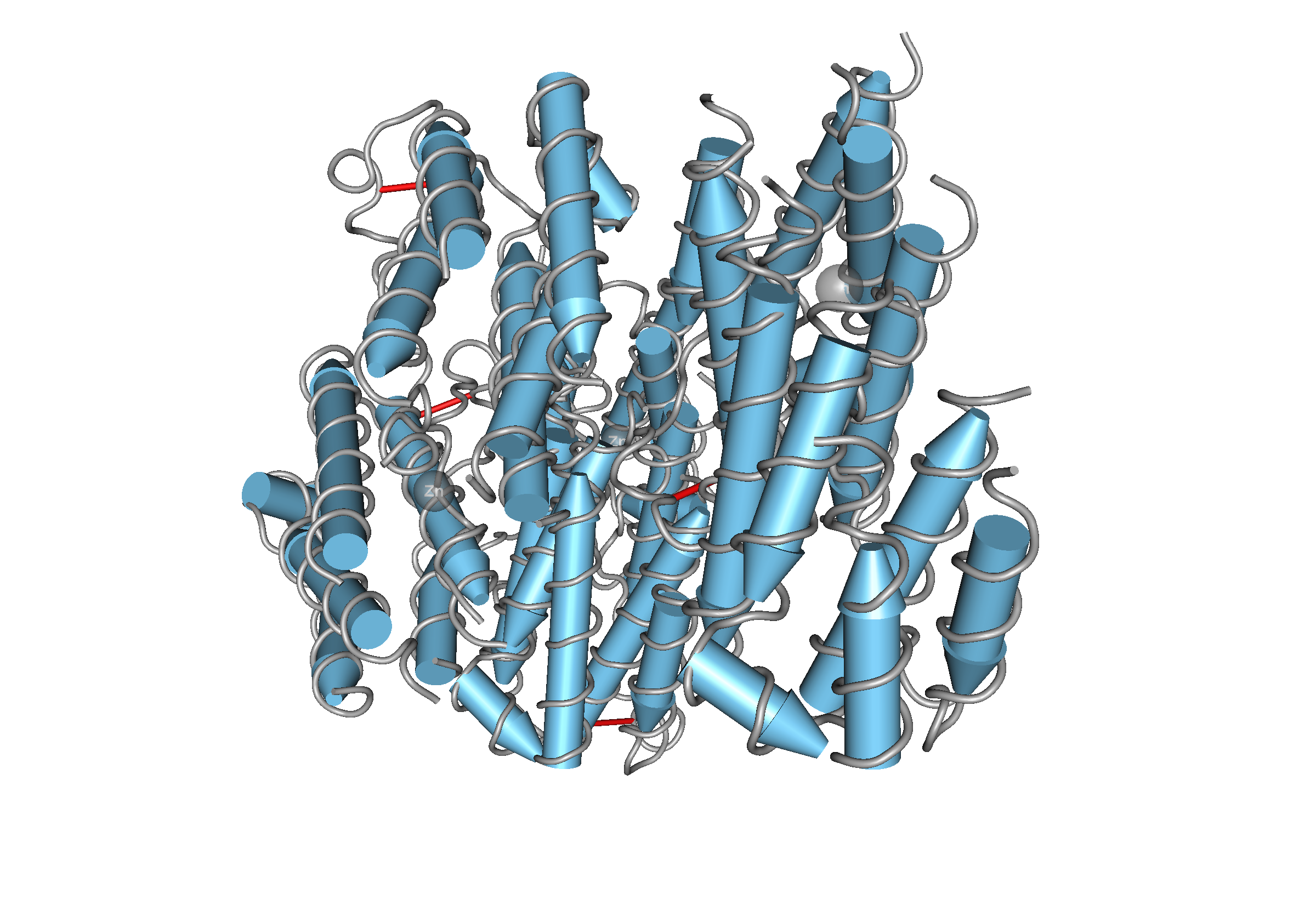 1RH2 Recombinant Human Interferon Alpha 2b